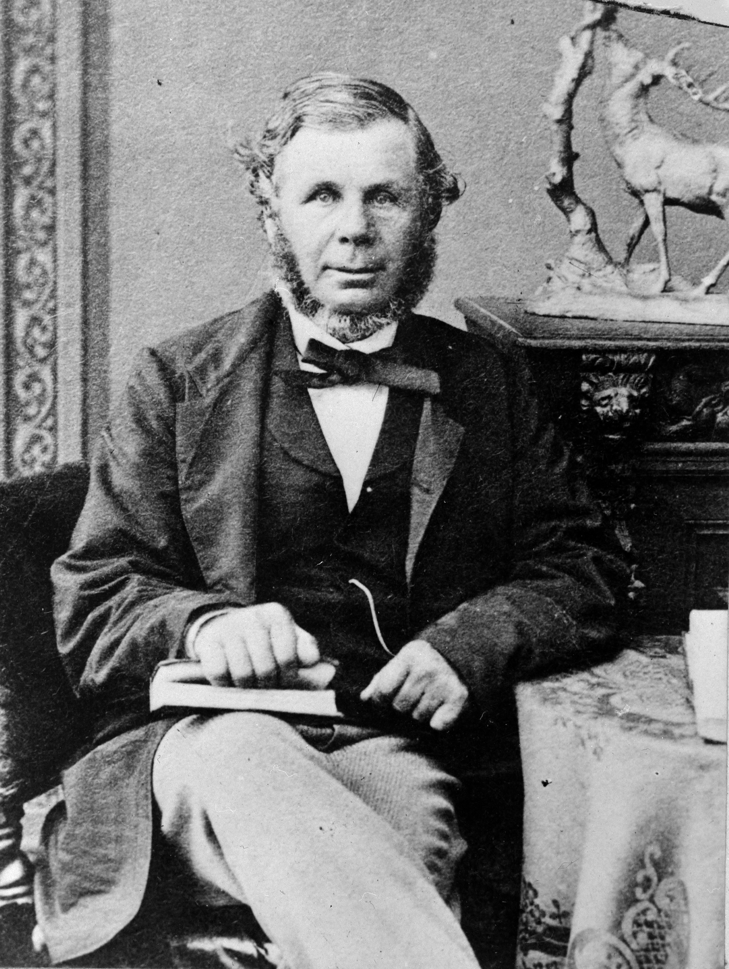 A photograph of Robert Heaton Rhodes (1815-1884) probably taken while he was on the Provincial Council.